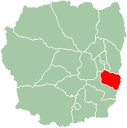 Location map of Andramasina region in Antananarivo province.